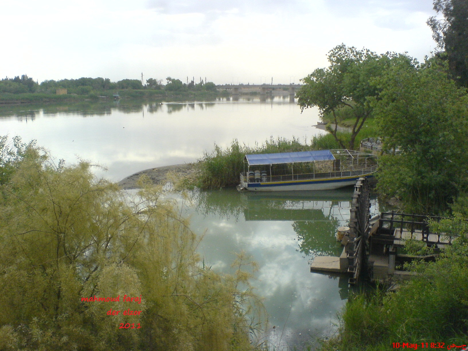 when i was in the vacation